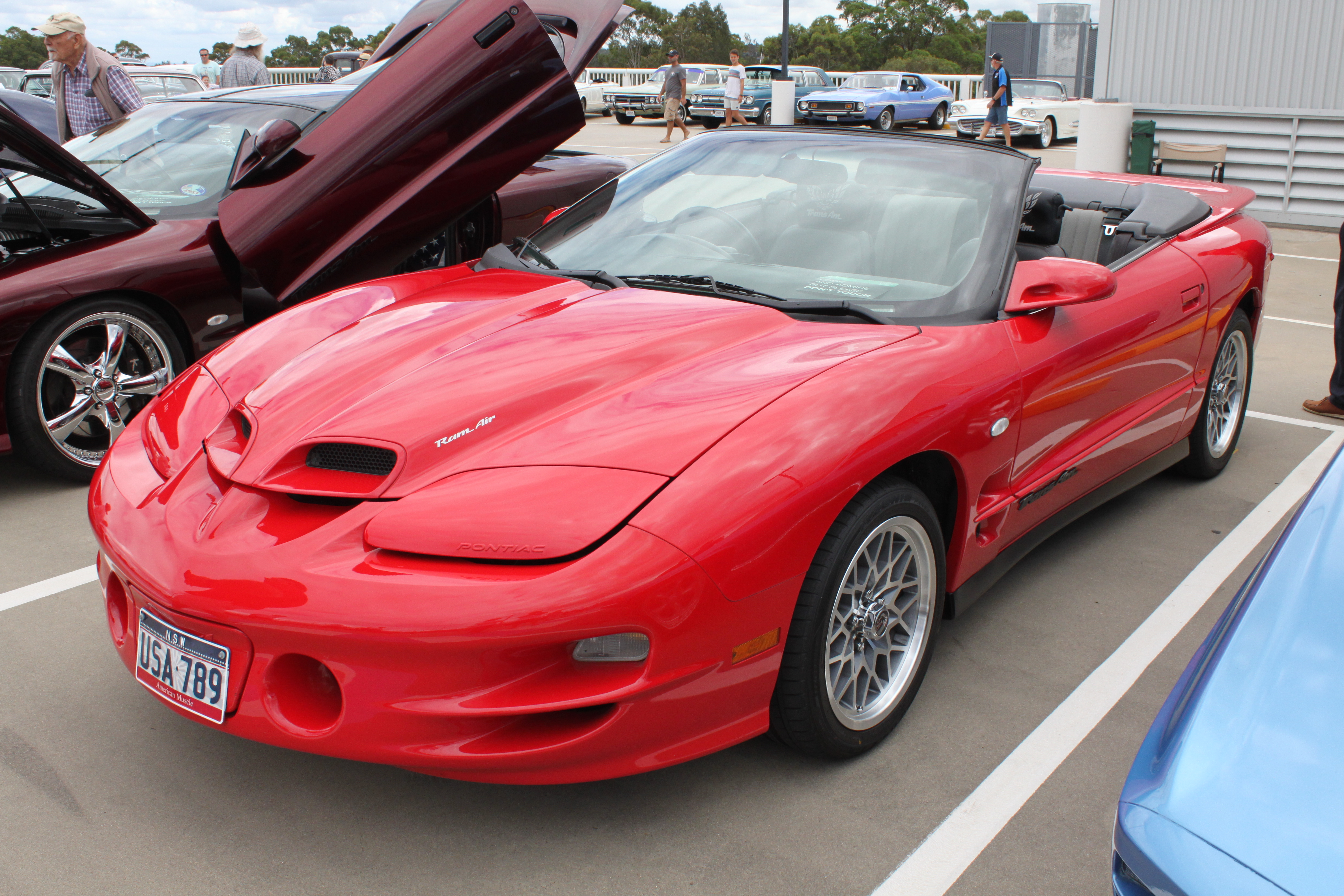 All American Car Show, Castle Hill, NSW January 2016